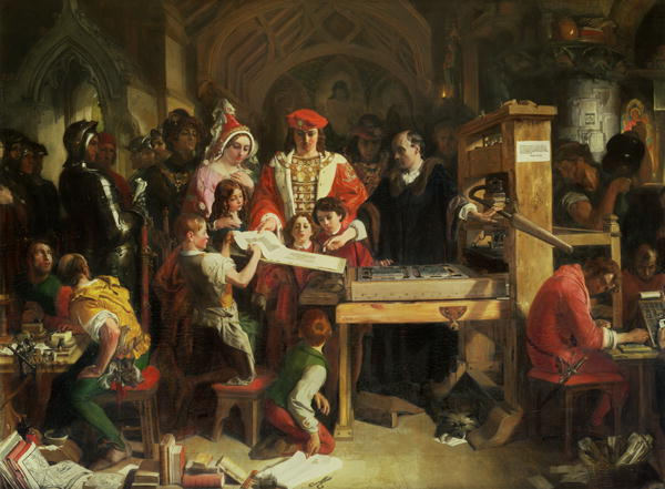 Caxton Showing the First Specimen of His Printing to King Edward IV at the Almonry, Westminster: With Edward are his wife, Elizabeth Woodville, and their children, Elizabeth, Edward, and Richard.